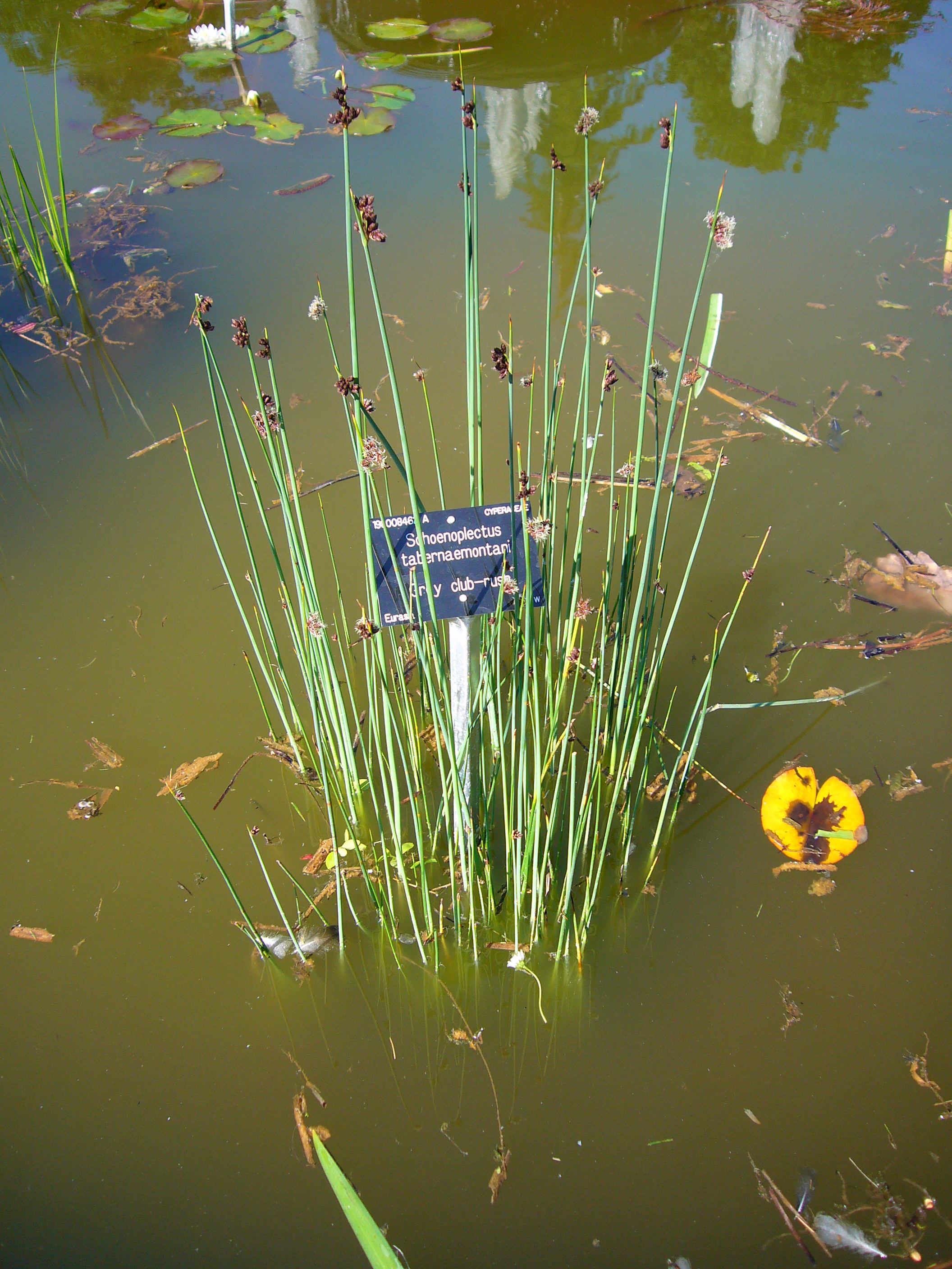 Schoenoplectus tabernaemontani "grey club-rush" (photo taken in the Cambridge University Botanic Garden)